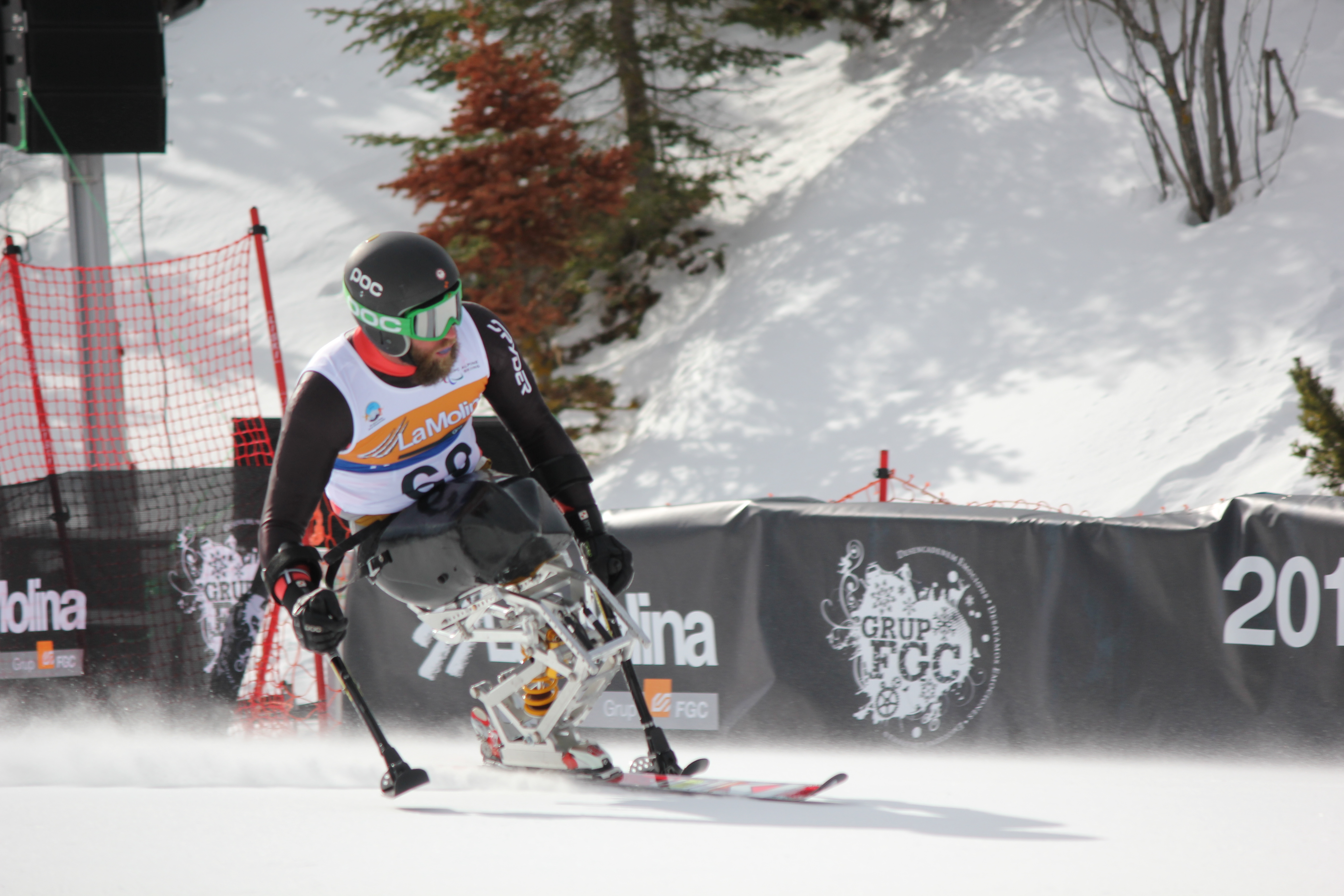 2013 IPC Alpine World Championships in La Molina, Spain on Super combined competition day for the first run in the men's sitting event.